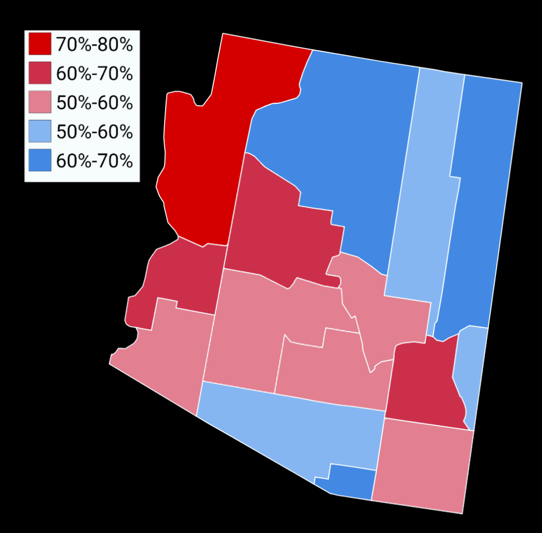 Map showing the results of the 2014 secretary of state election in Arizona by county.